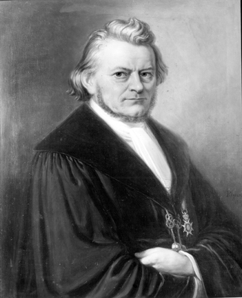 Digital image of oil painting in the public domain.